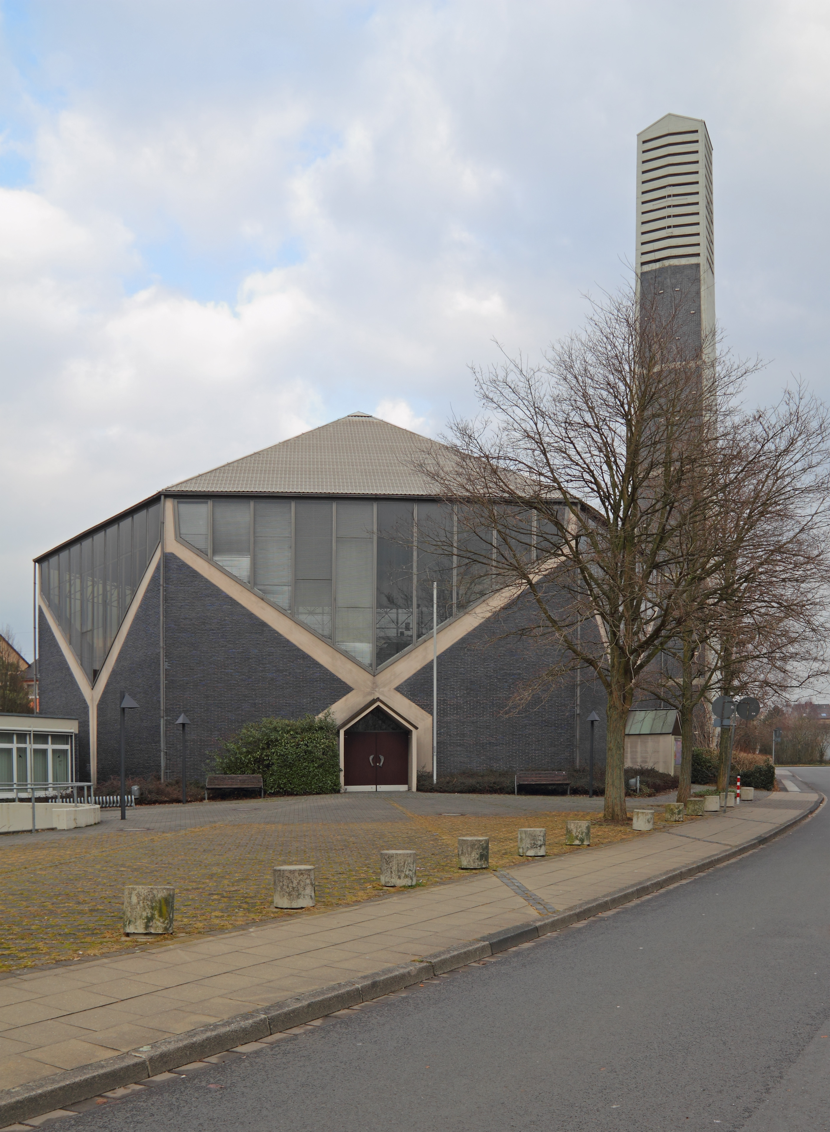 Evangelist St. Peter Church in Leverkusen-Bürrig